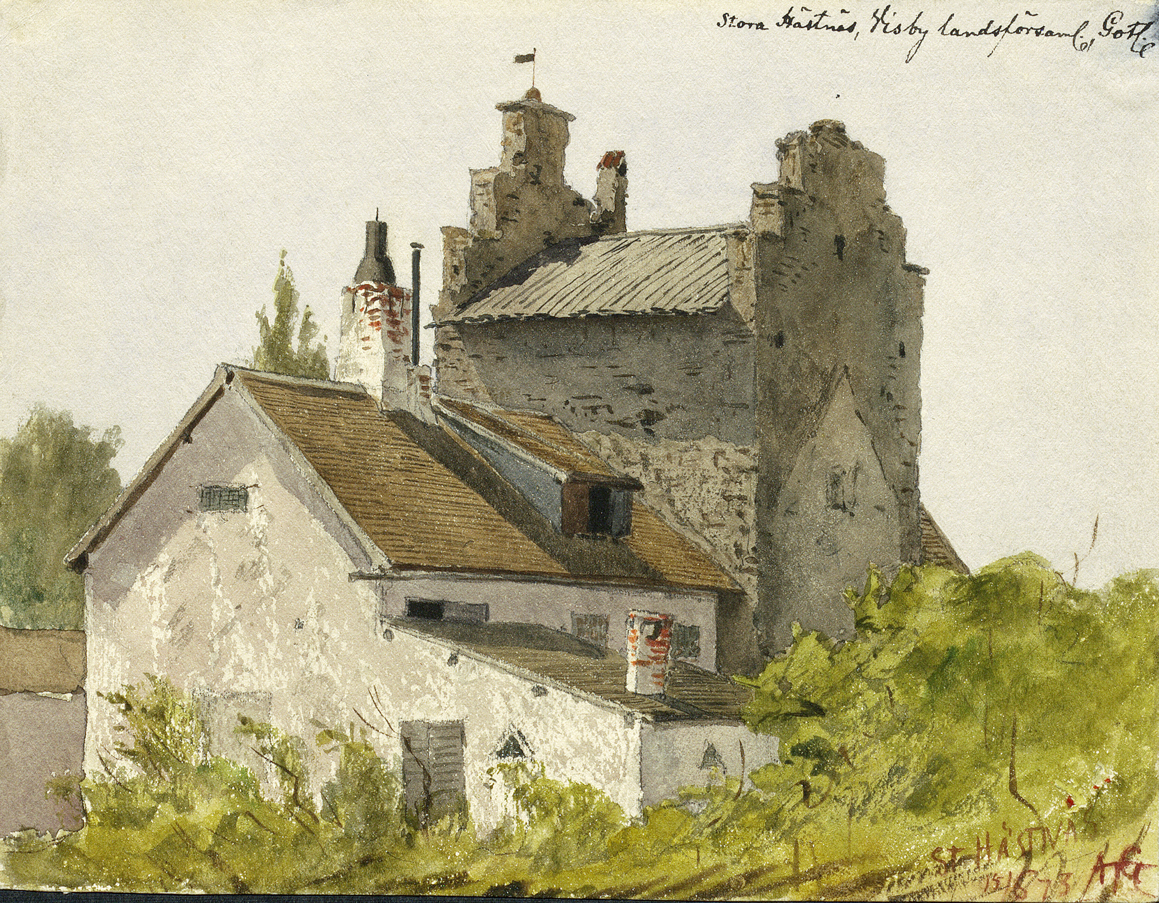 Stone house with stepped gables from the 14th century, at Stora Hästnäs north of Visby town on the island of Gotland. Watercoloured drawing by A.T. Gellerstedt, from the 15th of June, 1873. Stenhus med trappgavlar från 1300-talet vid Stora Hästnäs norr om Visby. Akvarellerad teckning av A.T. Gellerstedt, från 15 juni 1873. Collection: The Collection of drawings, watercolours and prints, Archives of the Swedish National Heritage Board Parish (socken): Visby Province (landskap): Gotland Municipality (kommun): Gotland County (län): Gotland Photograph by: Lars Kennerstedt Date: 2014 Persistent URL: Read more about the photo database (in english)